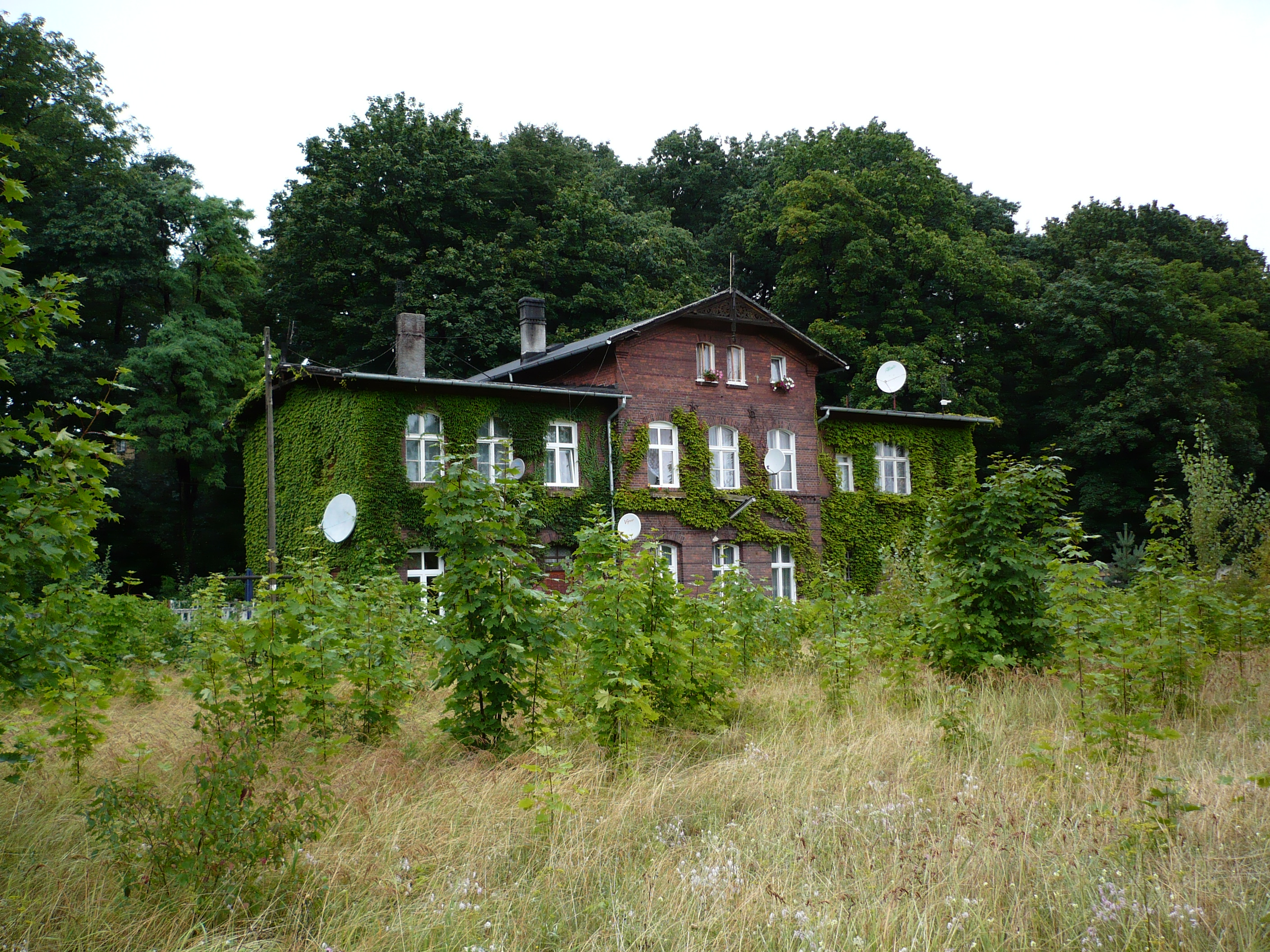 Abolished railway station Złoty Stok